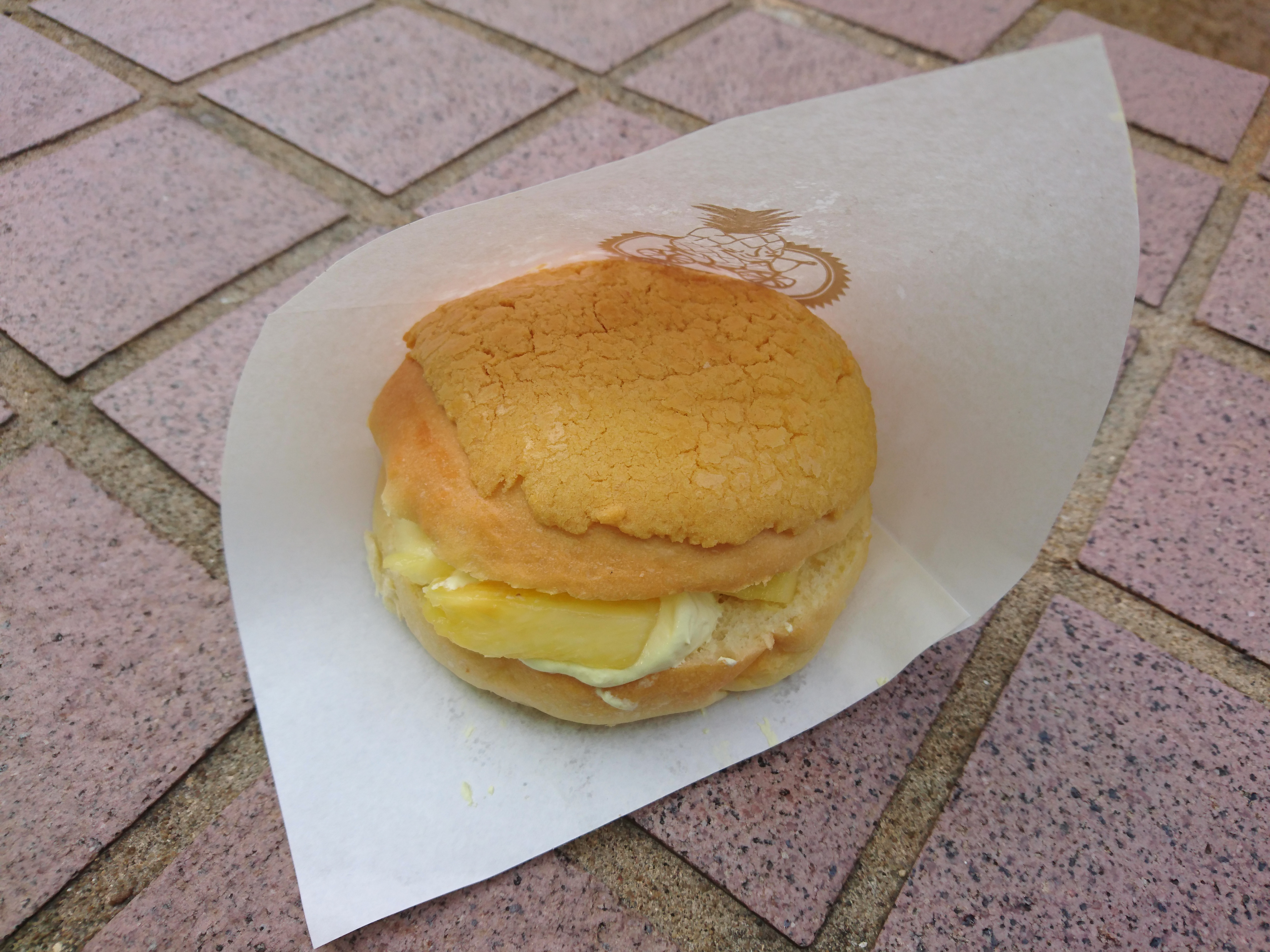 Pineapple Bun with Whipped Cream